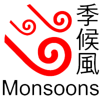 Image of Hong Kong's Monsoon Signal.